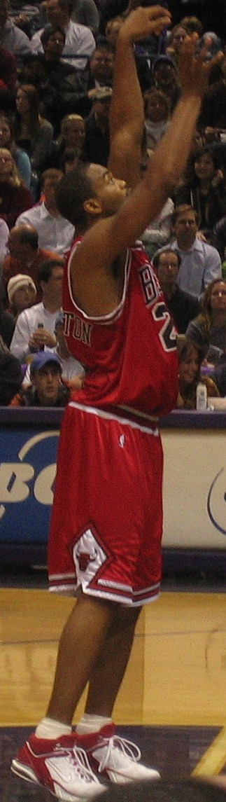 Othella Harrington attempting a free throw